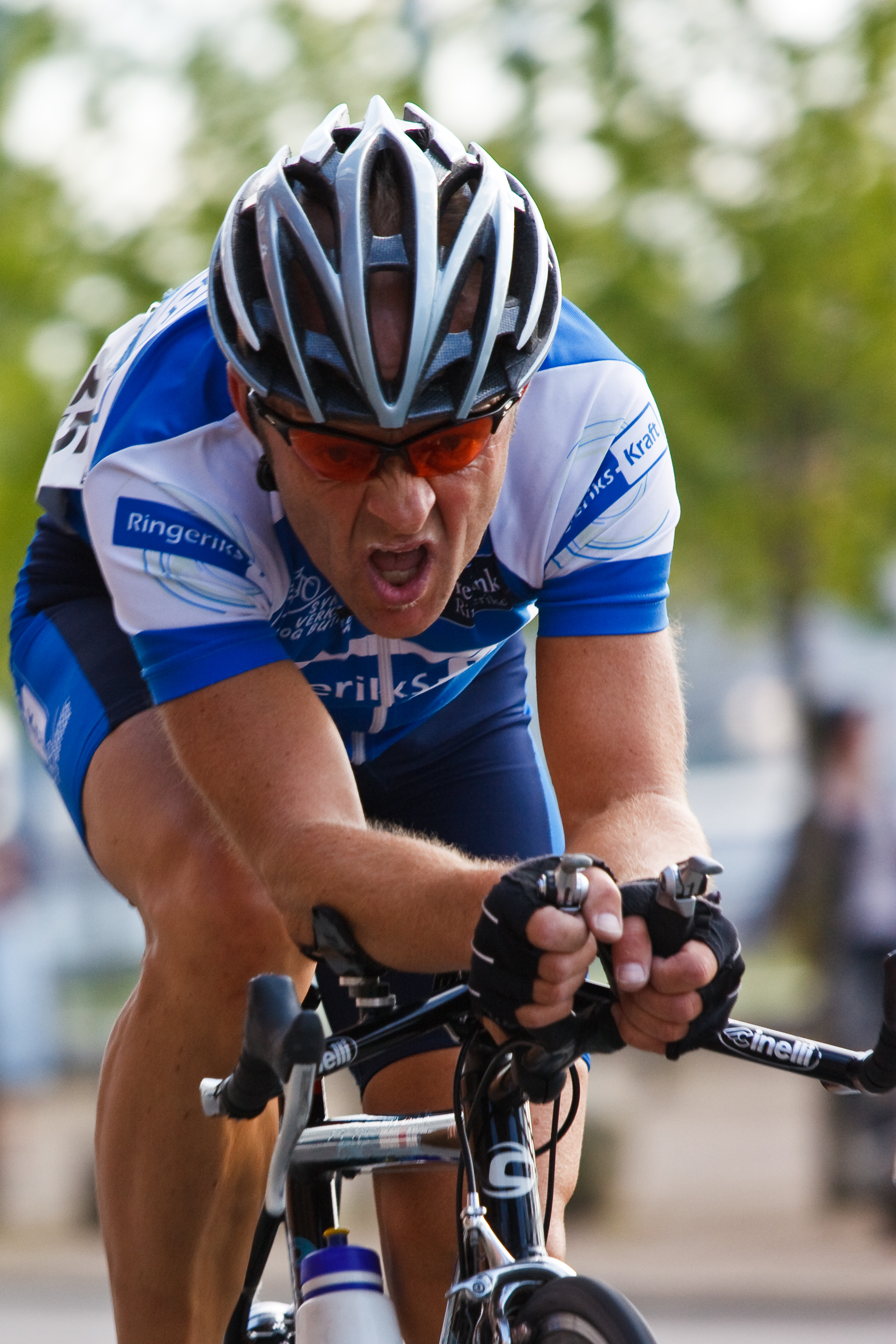 Cycling Time Trial during World Outgames 2009 in Copenhagen, Denmark Tidskørsel under World Outgames 2009 i København